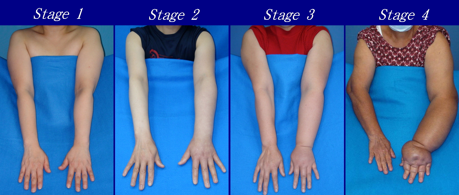 Lymphedema staging for upper limbs